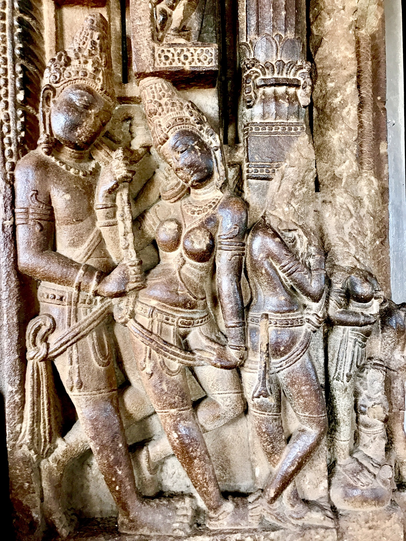 God and Goddess’s figures carved out on Ambigergudi